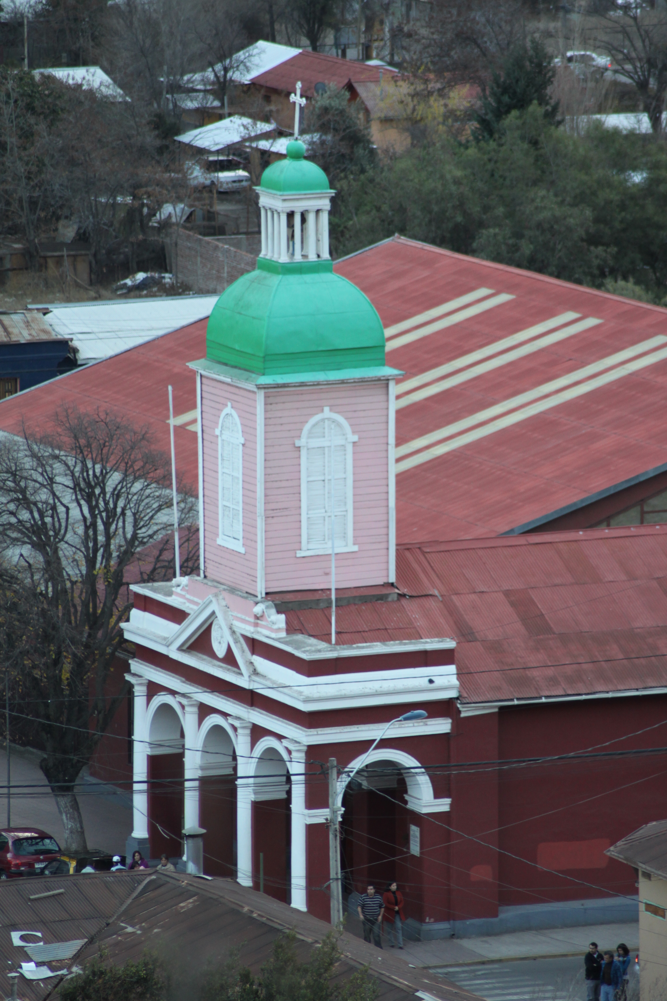 This is a photo of a national monument in Chile: 886